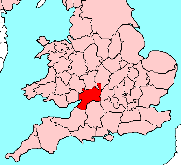 Gloucestershire